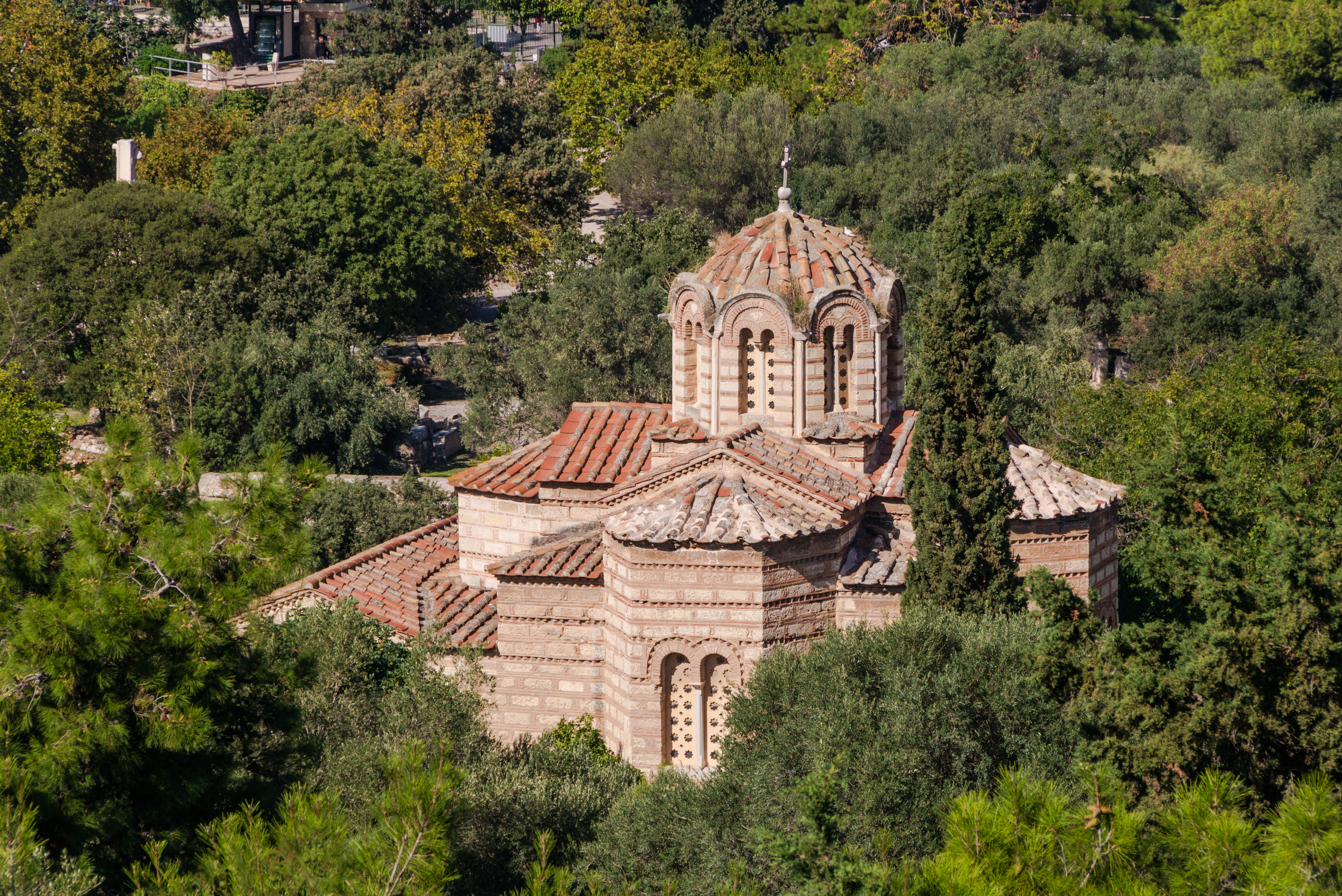 The church of the Holy Apostles (10th.c.) in the ancient Agora, as seen from the Acropolis. Athens, Greece